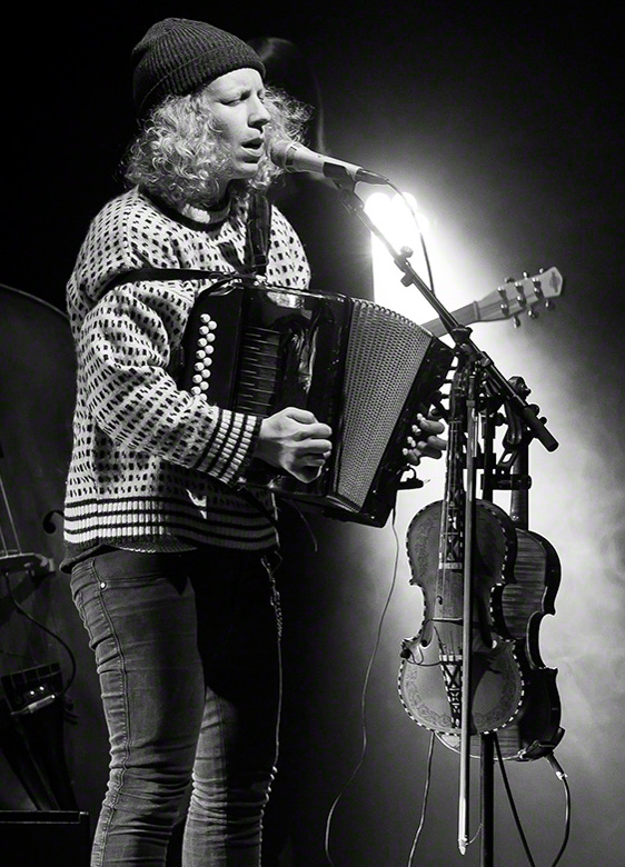 'Valkyrien Allstars' is performing at Cosmopolite in Oslo. Band members: Tuva Syvertsen (violin, Hardanger fiddle, vocal), Erik Sollid (violin, Hardanger fiddle, mandolin, vocal), Magnus Larsen (double bass), Martin Langlie (drums).